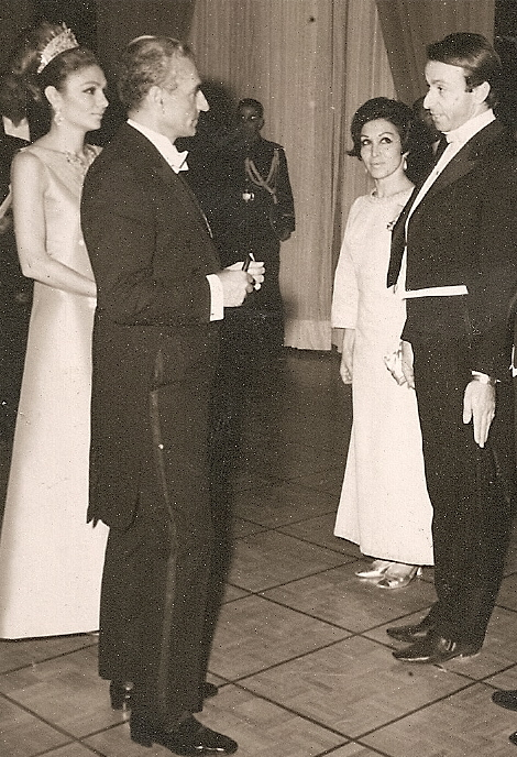 Schah Mohammad Reza Pahlavi, Schahbanu Farah Pahlavi, Robert E. Warren, opening of talar-e rudaki, october 25, 1967